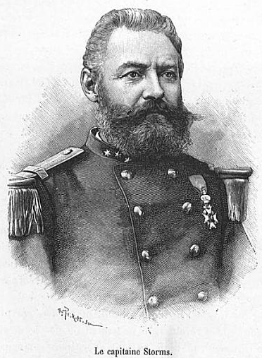 Émile Storms (2 June 1846 - 12 January 1918), Belgian soldier. 1886 engraving, published in 1890.